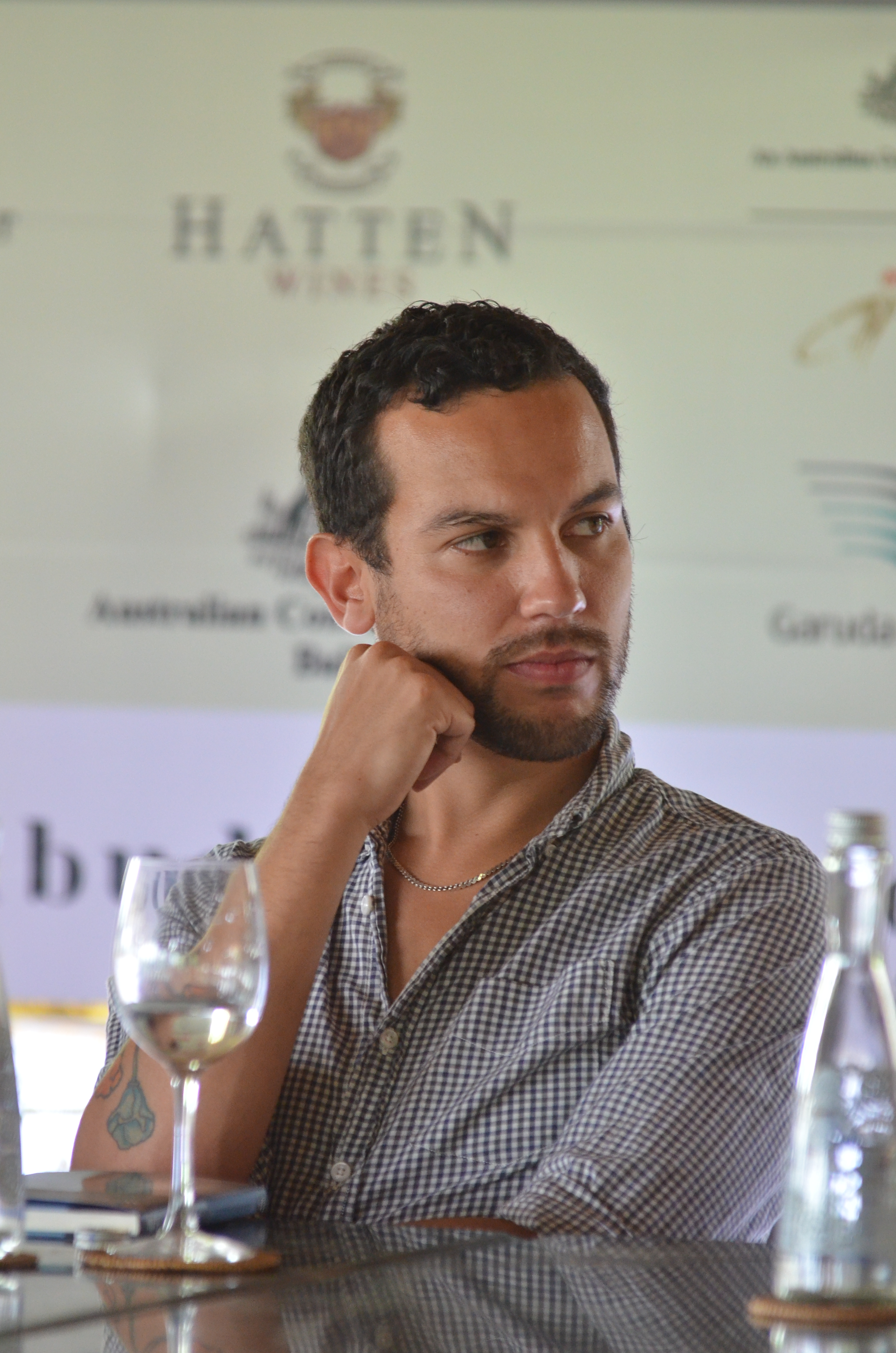 Ubud Writers & Readers Festival 2012. Image credit Anggara Mahendra.